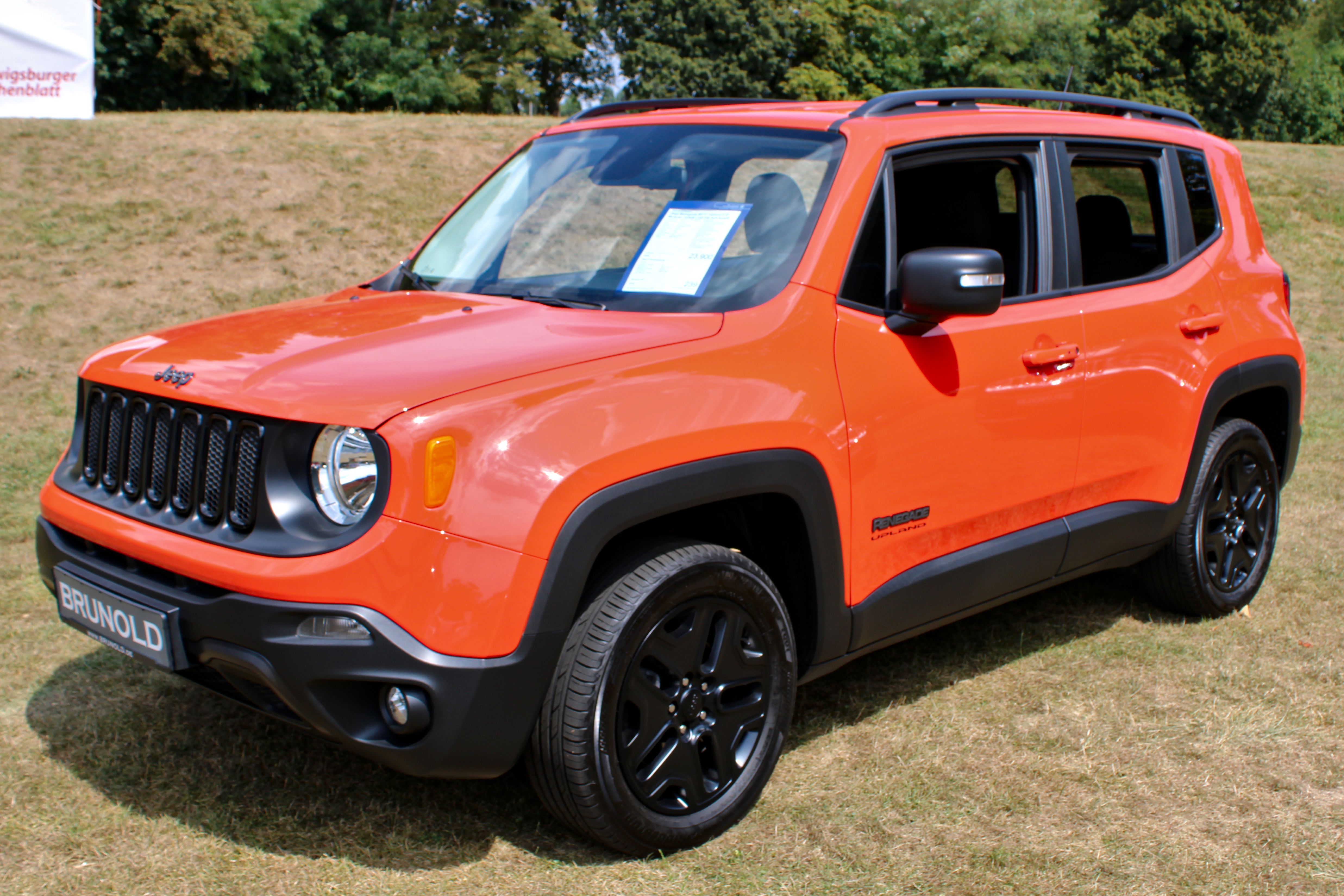 Jeep Renegade at schloss Monrepos